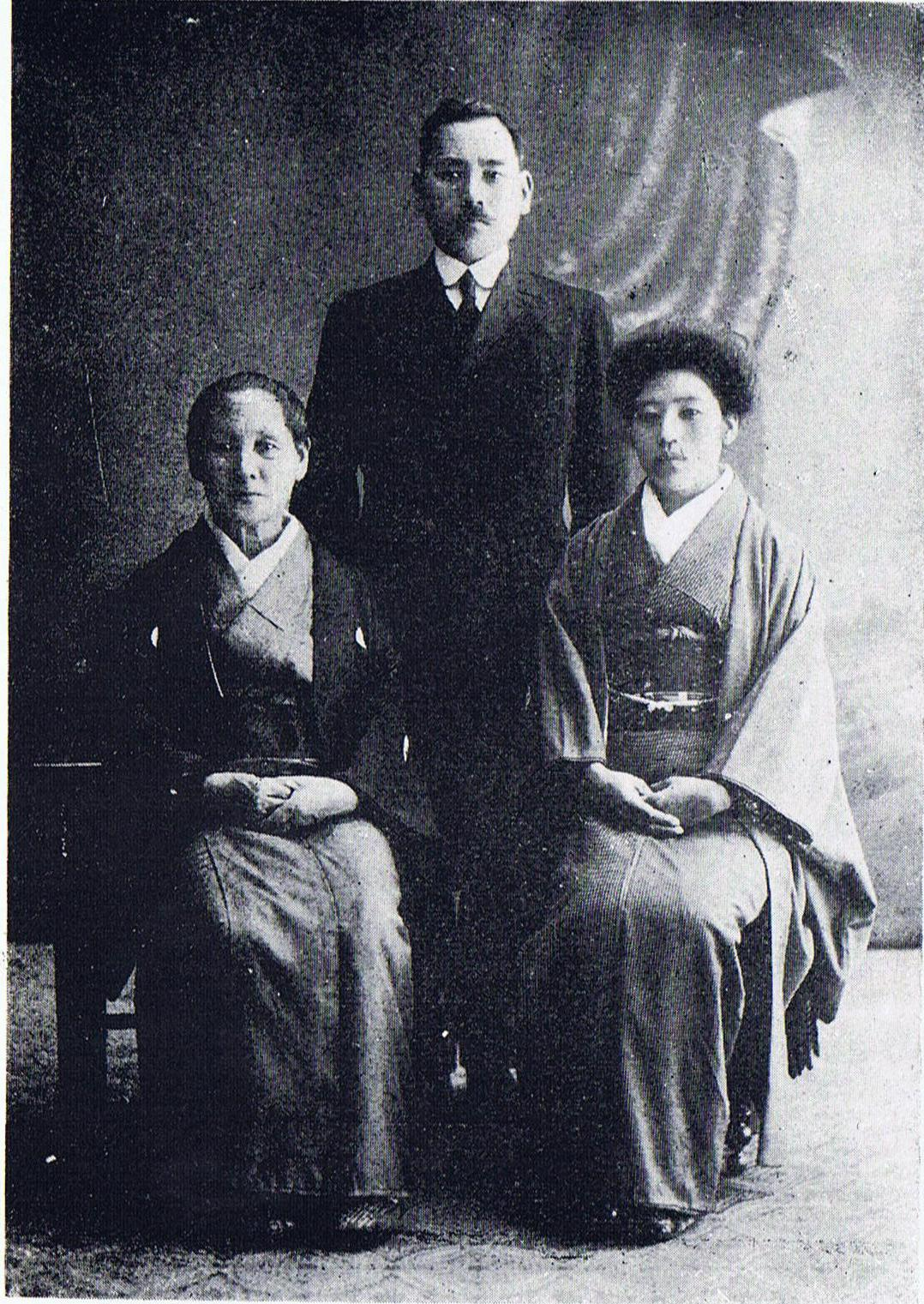 YOSHITI Yutaro